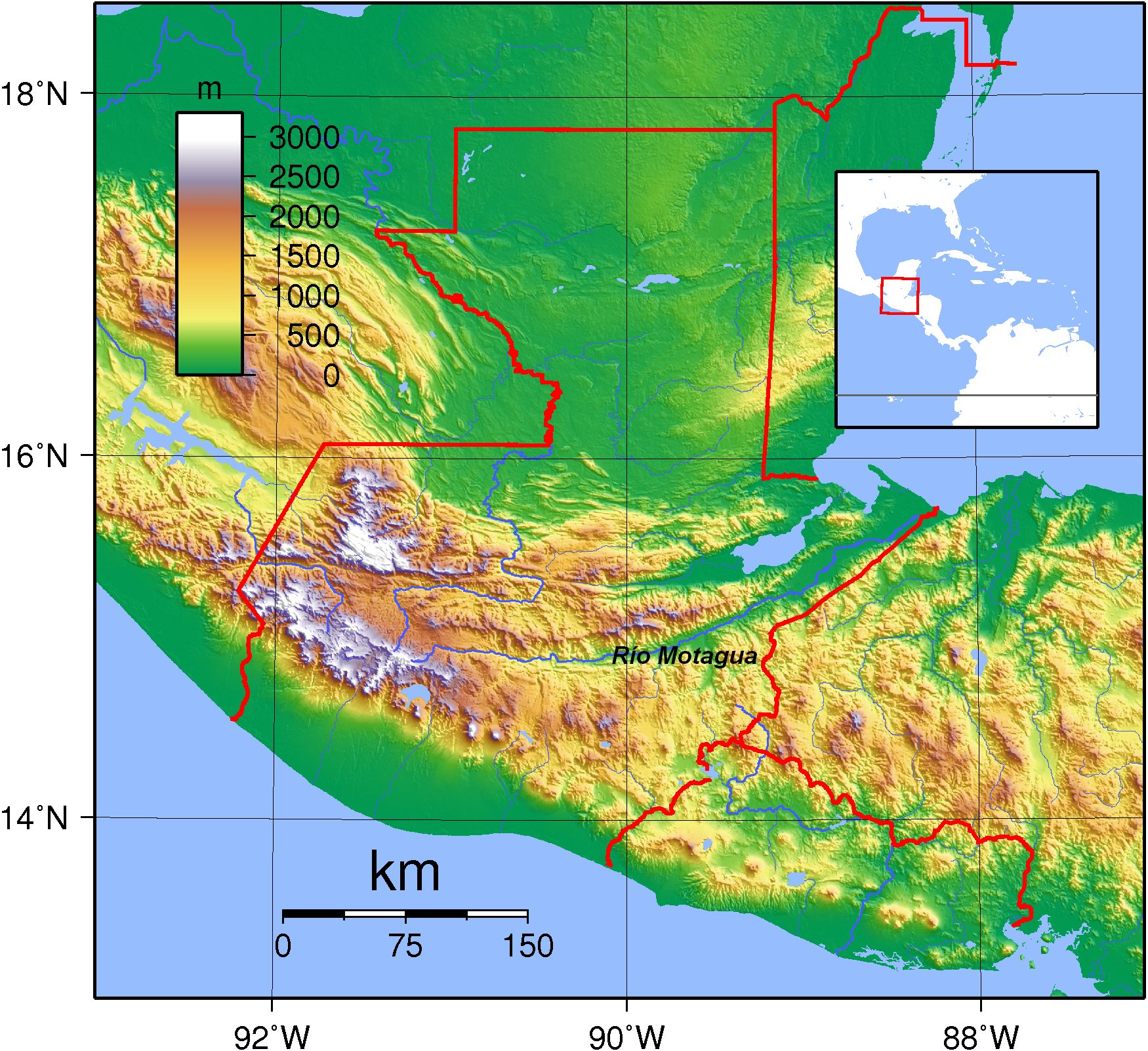 Localisation of Río Motagua